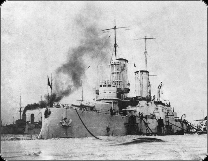 Imperial Russian battleship Imperator Pavel I, Helsingfors, winter 1914-1915.